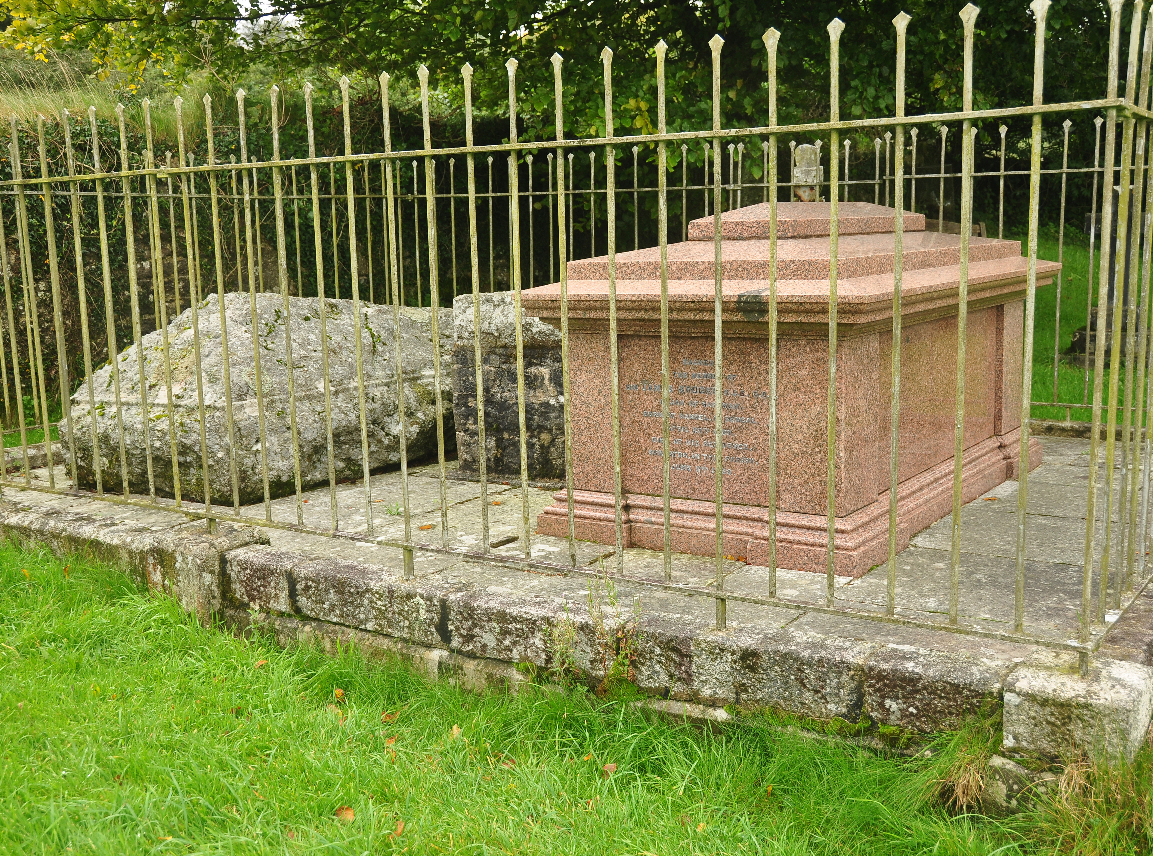 The graves of the Brookes (the White Rajahs) in Sheepstor churchyard on Dartmoor.